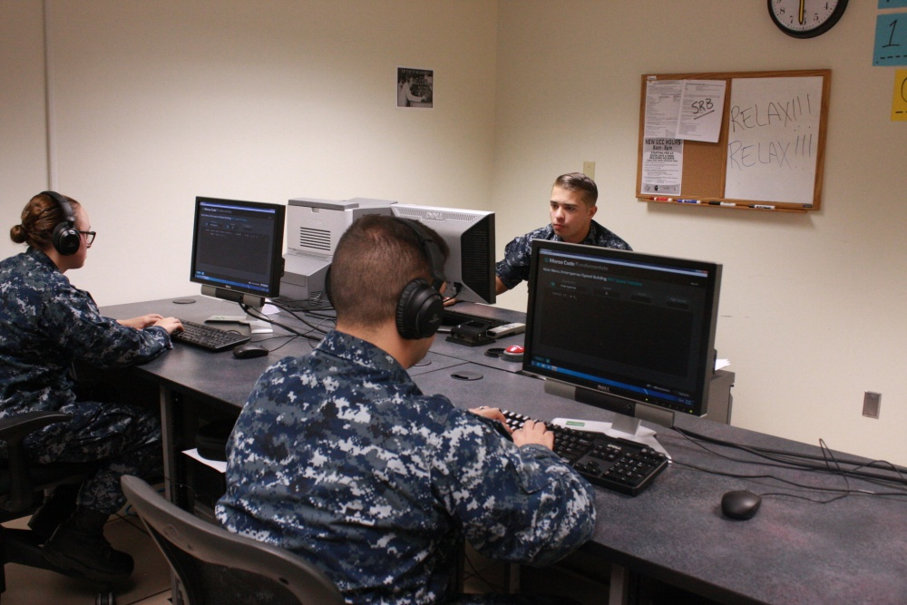 151103-N-XX082-001 PENSACOLA, Fla. (Nov. 3, 2015) Students learn Morse code while attending the first revised Basic Manual Morse Trainer (BMMT) course at the Center for Information Dominance (CID) Unit Corry Station. Morse code is just one tool that cryptologic technician (collection) Sailors use as members of the Navy's Information Warfare community to perform collection, analysis and reporting on communication signals. (U.S. Navy photo by Information Systems Technician 1st Class Kristin Carter/Released)